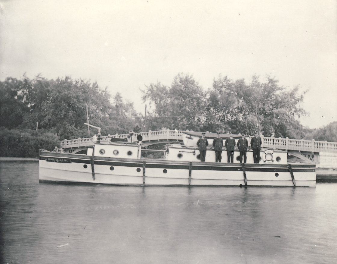 The Toronto fire boat Charles A. Reed in 1928 at its island dock near the Manitou Road bridge on Centre Island. Toronto, Ontario, Canada.